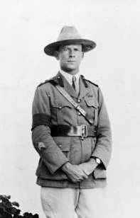 Ottoman Empire: Mejdel Jaffa Area, Rishon. Outdoor portrait of Lieutenant Colonel Michael Bruxner, of the 6th Australian Light Horse Regiment.